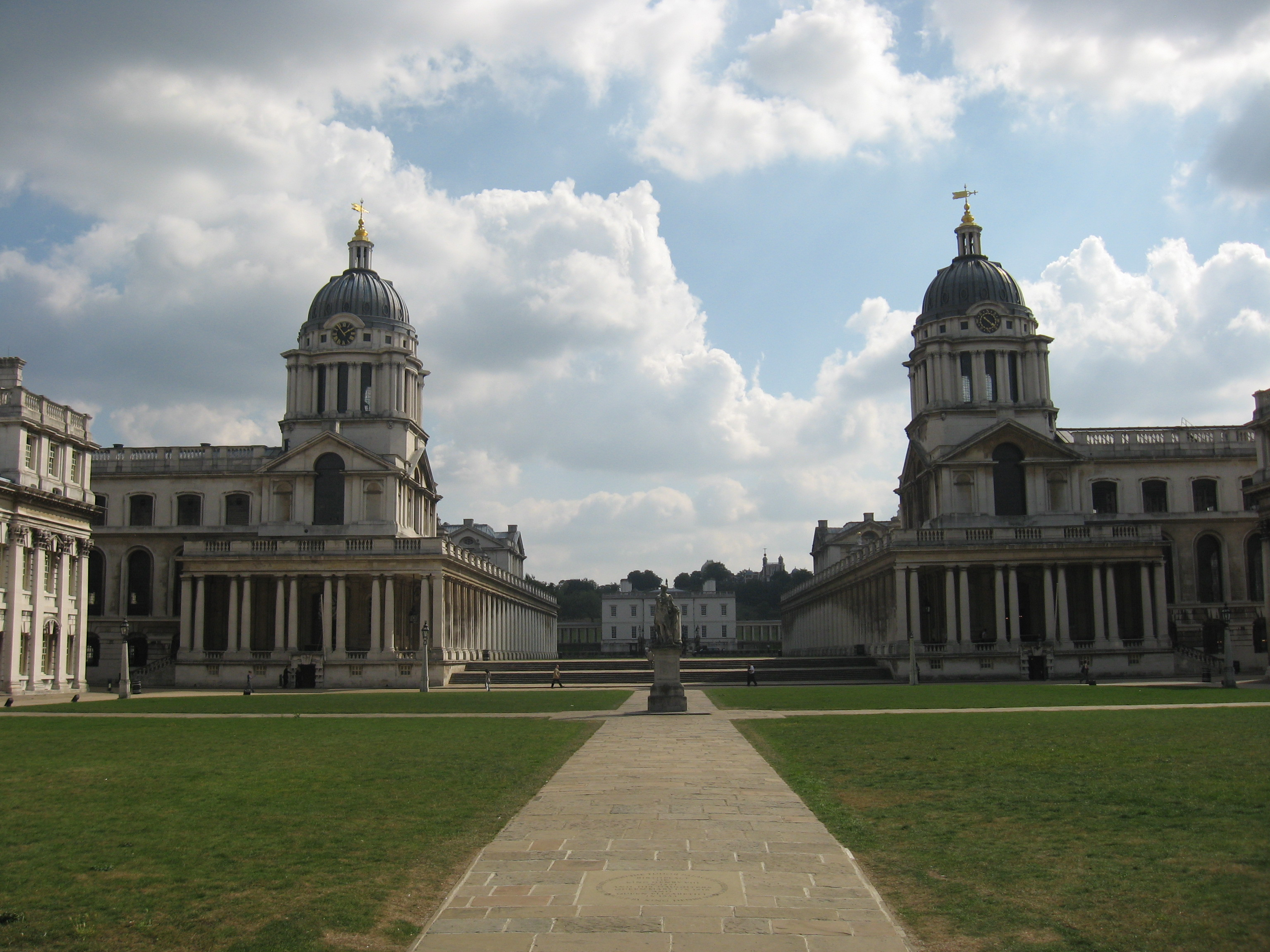 London_Maritime_Greenwich